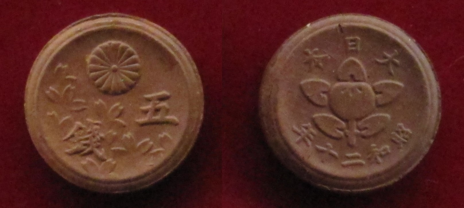 5 sen clay coin of Japan produced but unissued in 1945. Displayed in Japan Mint Saitama Museum.